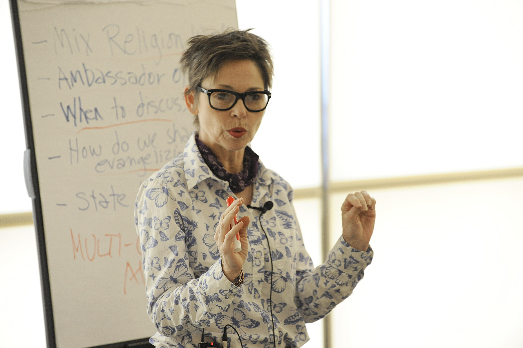 Working toward a better understanding of religious diversity in the workplace.